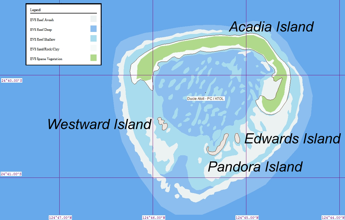 Map of Ducie Island (Pitcairn Islands) in the Pacific Ocean